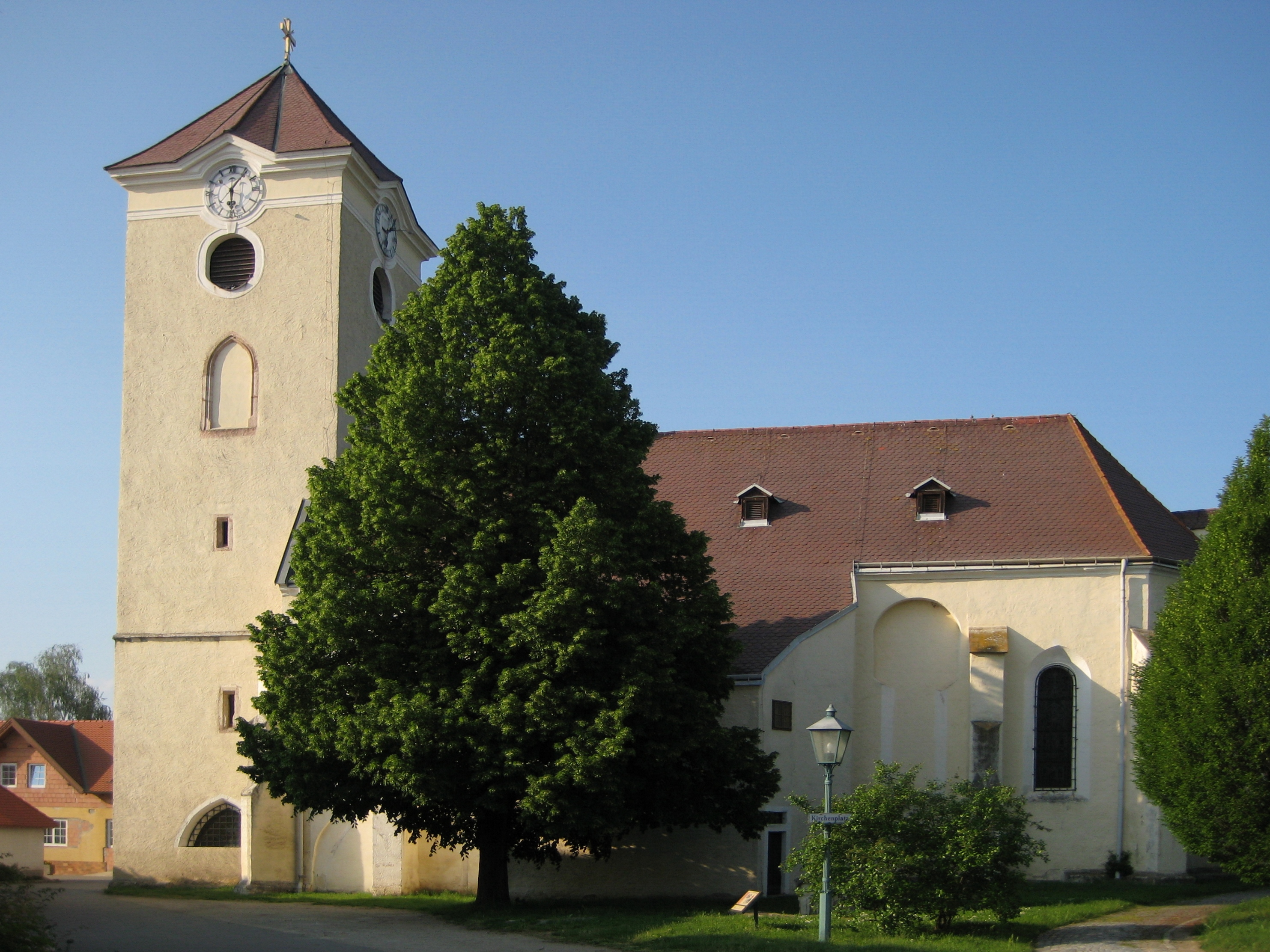 Schrattenthal